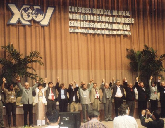 XV World Trade Union Congress in Havana, Cuba.